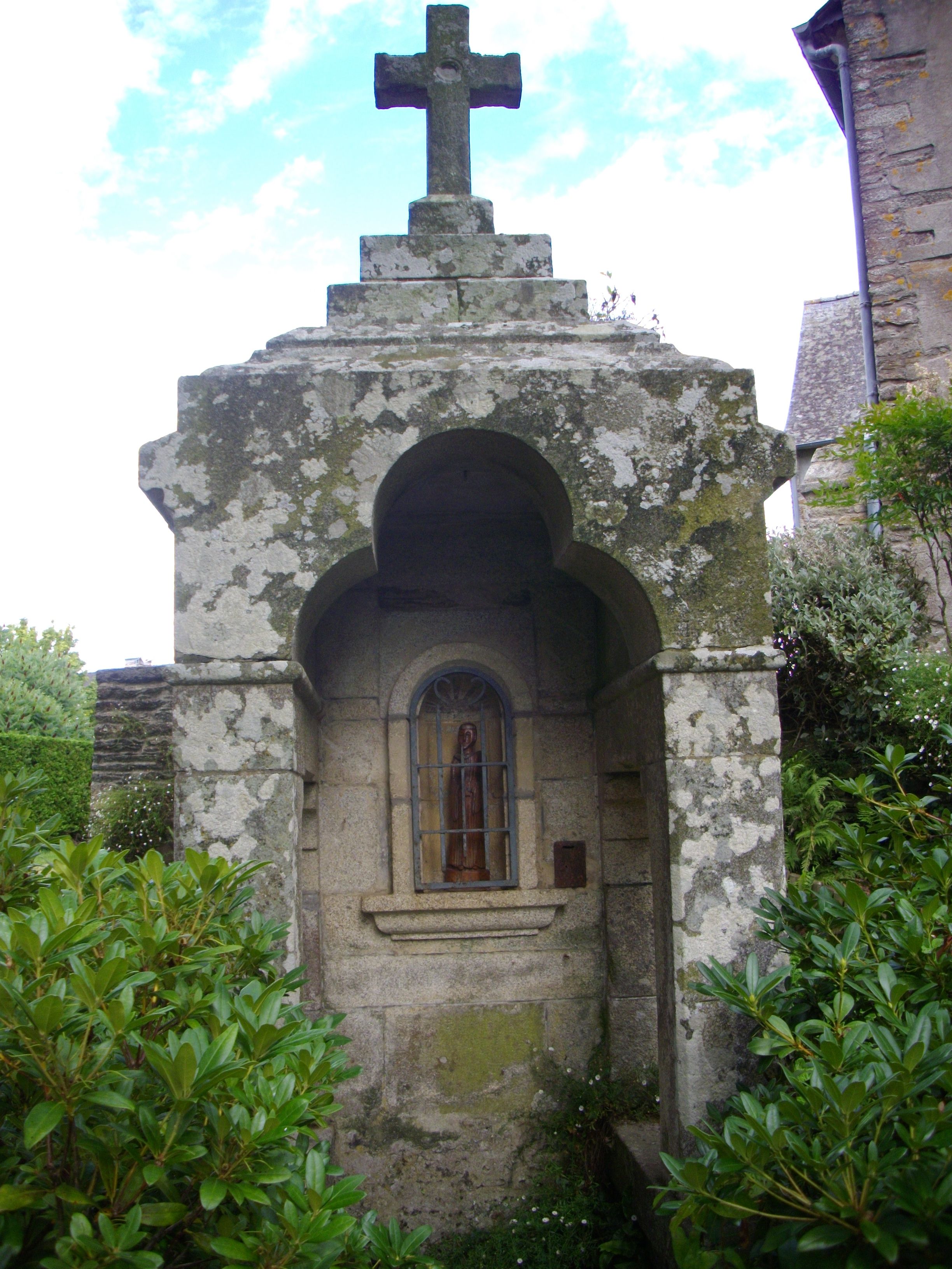 Saint Laur fountain of Montertelot (Morbihan, France)